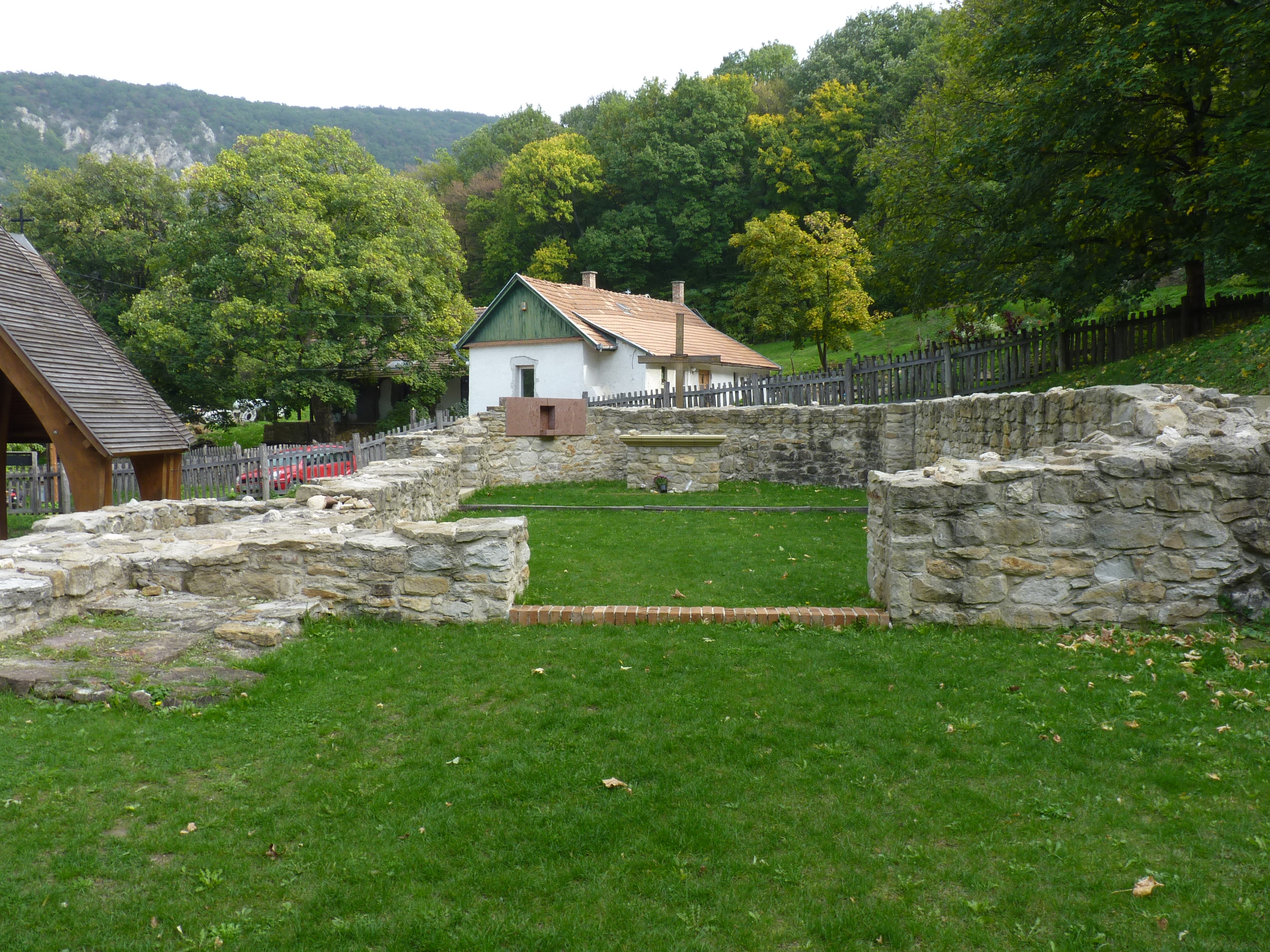 Ruins of Pauline monastery, Klastrompuszta